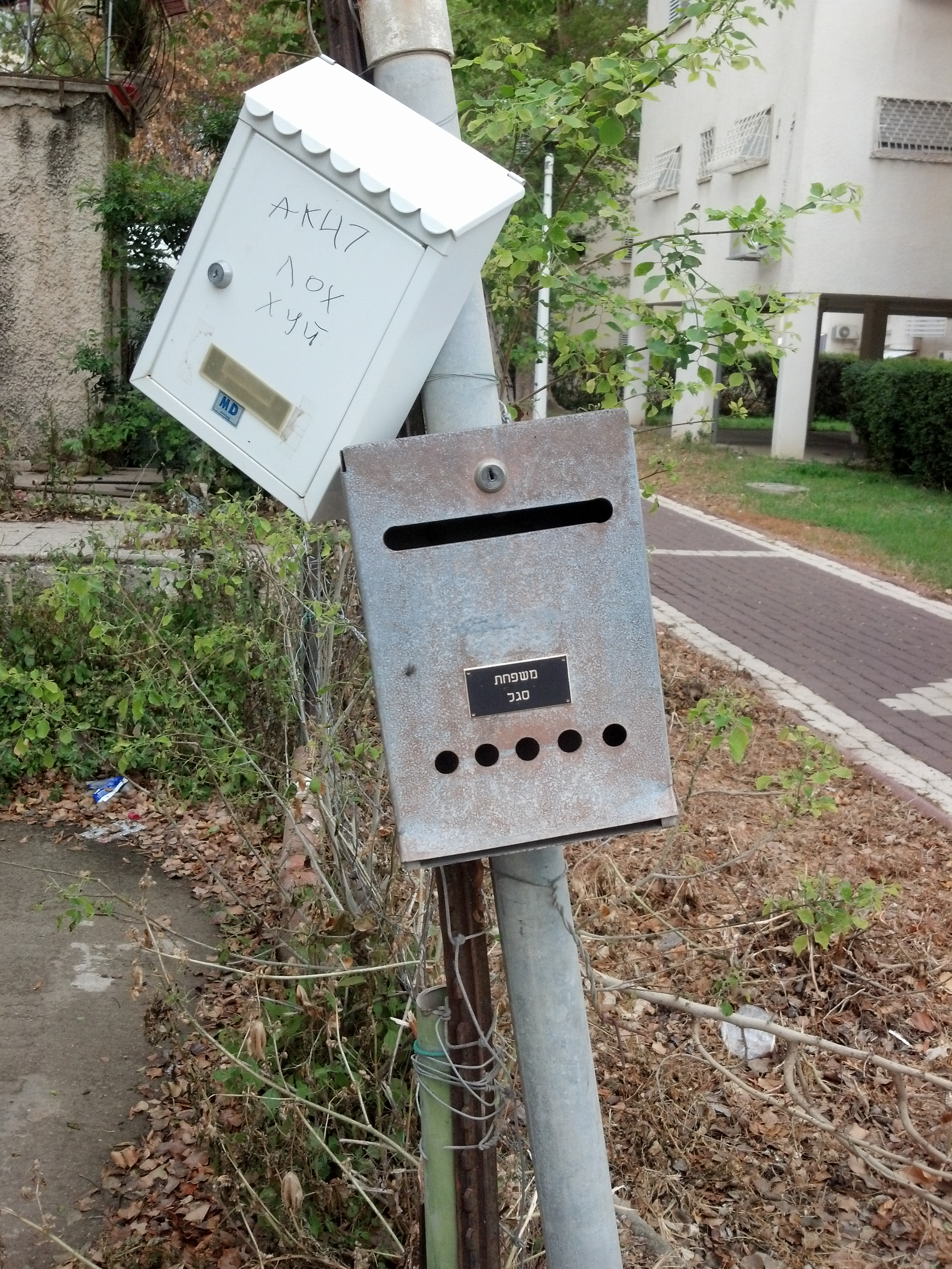 Two post boxes